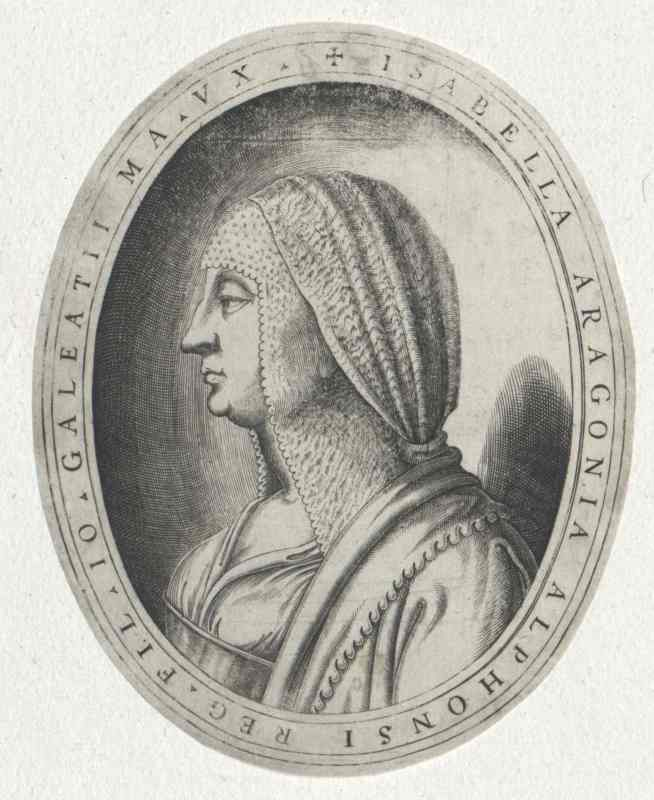 Isabella of Naples (1470-1524) Duchess of Milan, suo iure Duchess of Bari and Princess of Rossano